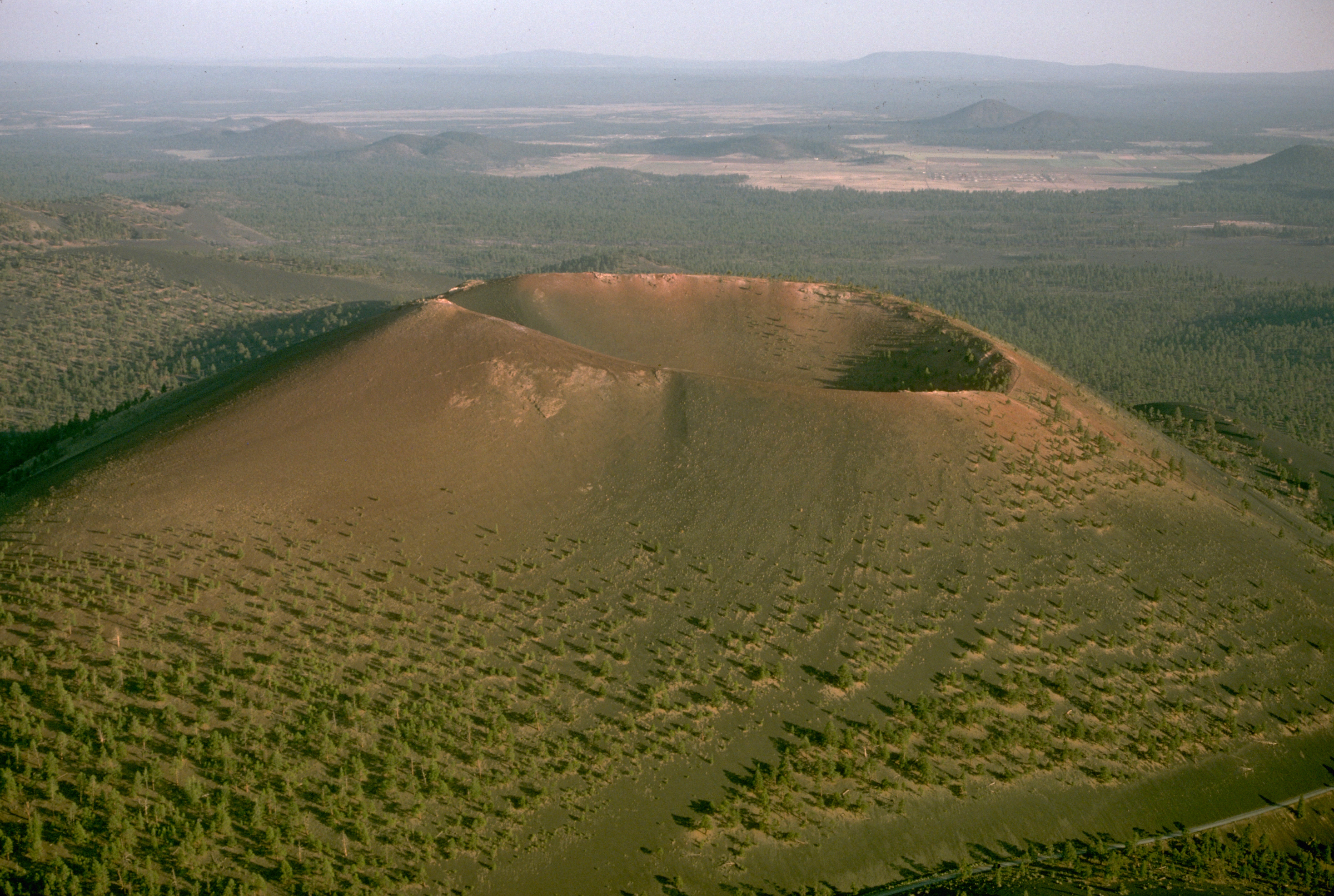 Sunset Crater Volcano, Arizona, USA.